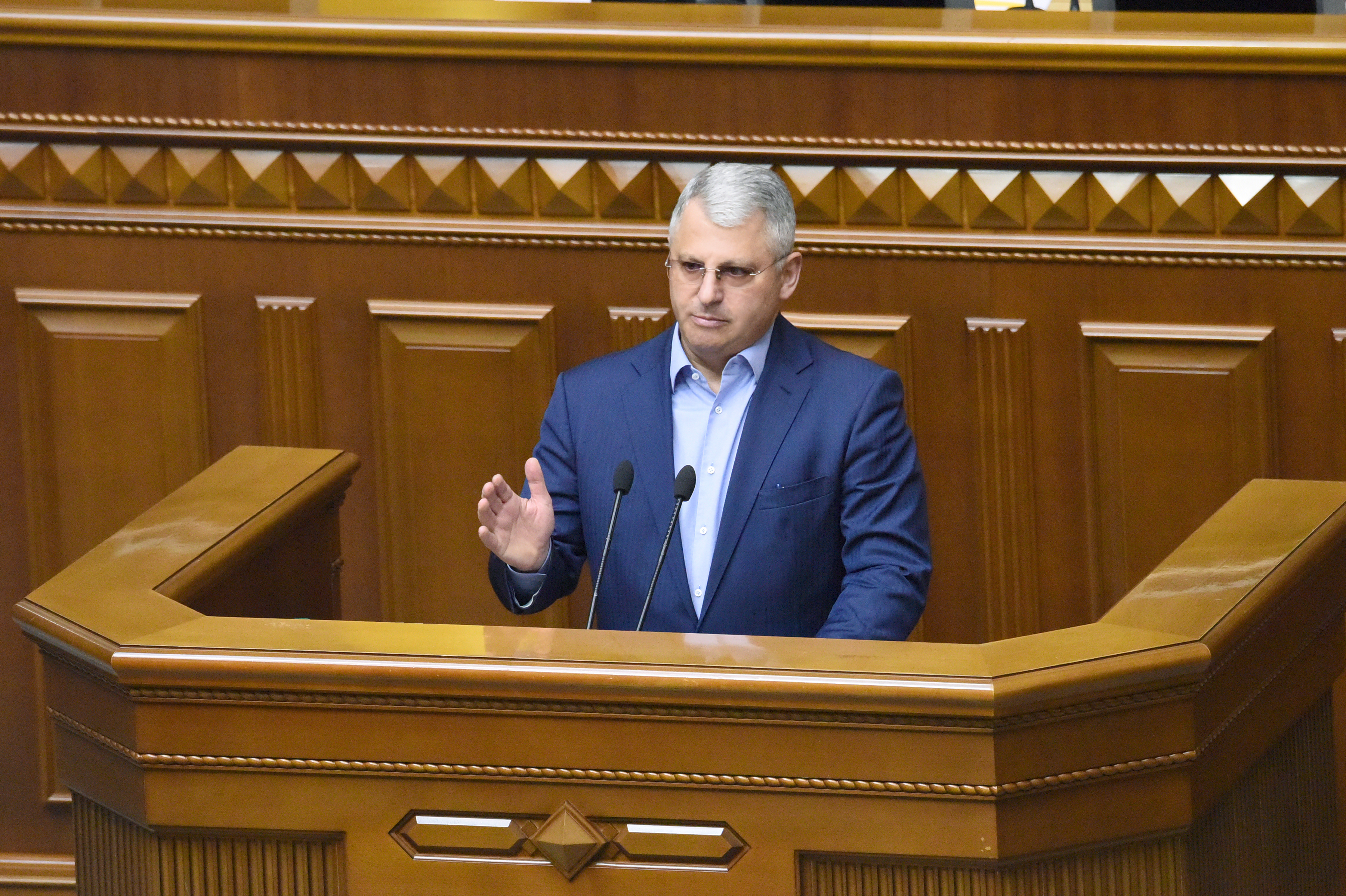 PARLIAMENT OF UKRAINE